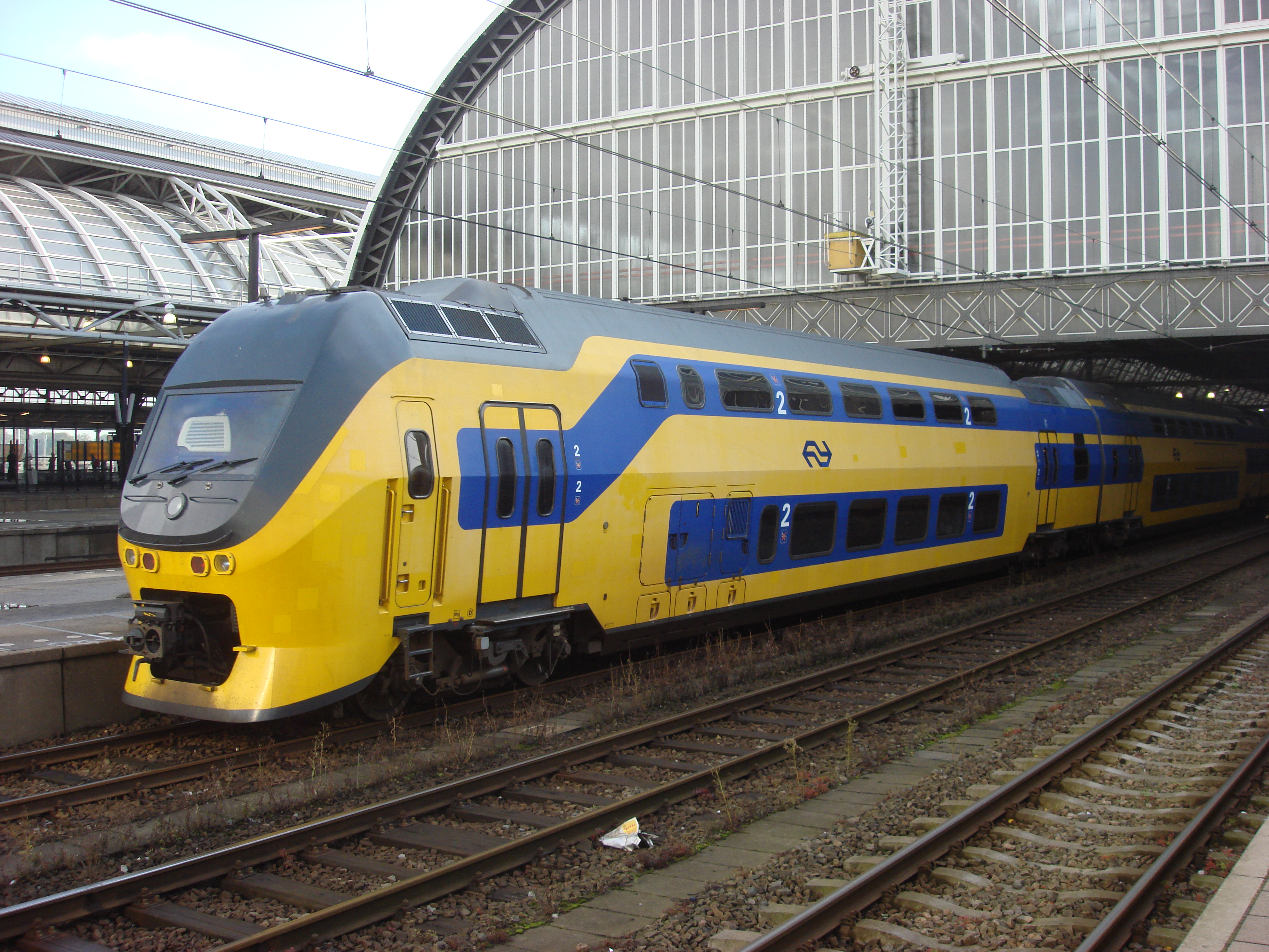 Nederlandse Spoorwegen or NS(Dutch Railways) Dubbeldeks interregiomaterieel (DD-IRM) at Amsterdam Centraal railway station